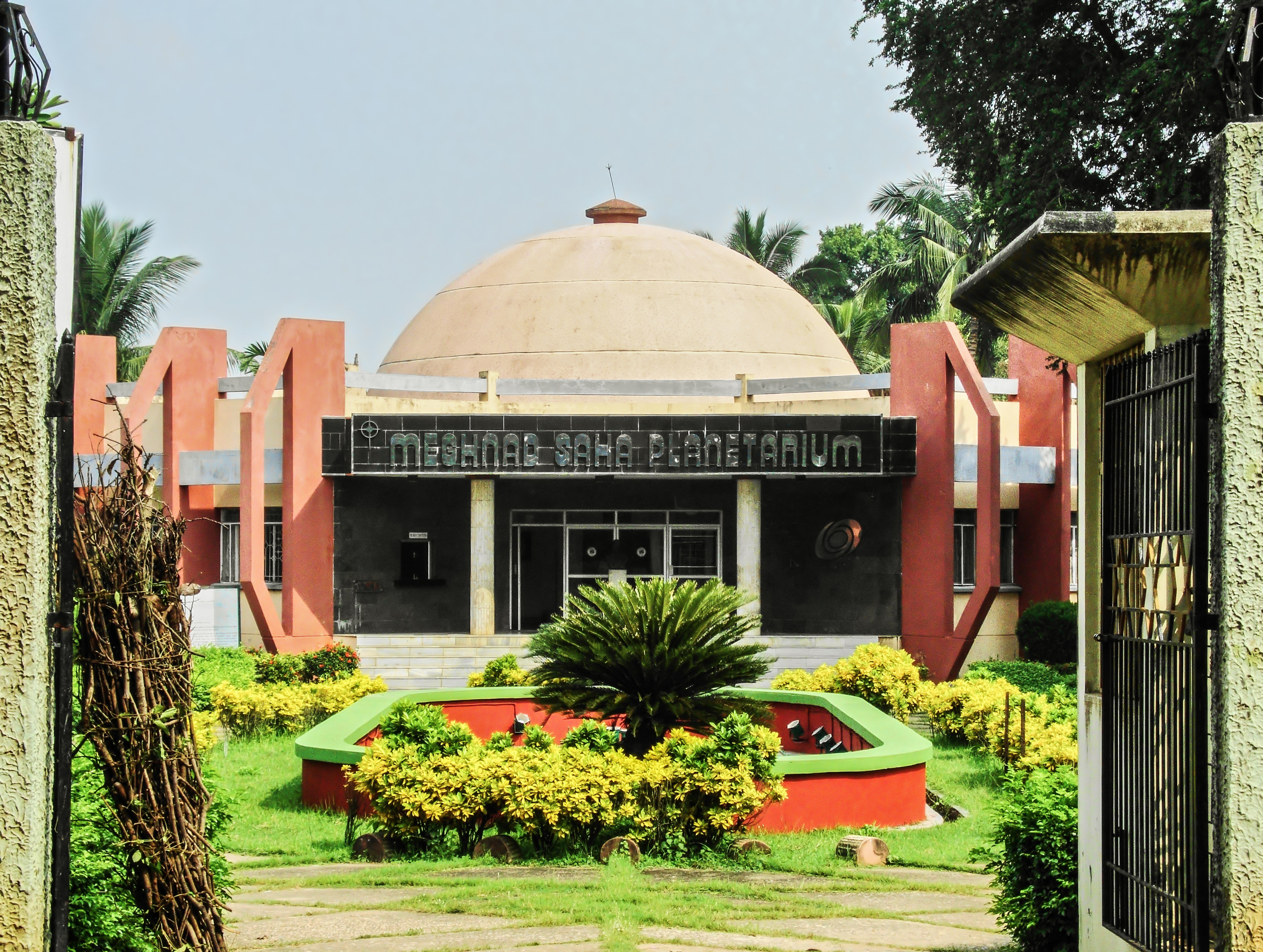 Meghnad Saha Planetarium, Golapbag, Bardhaman. This planetarium is named after renowned Indian scientist Meghnad Saha.